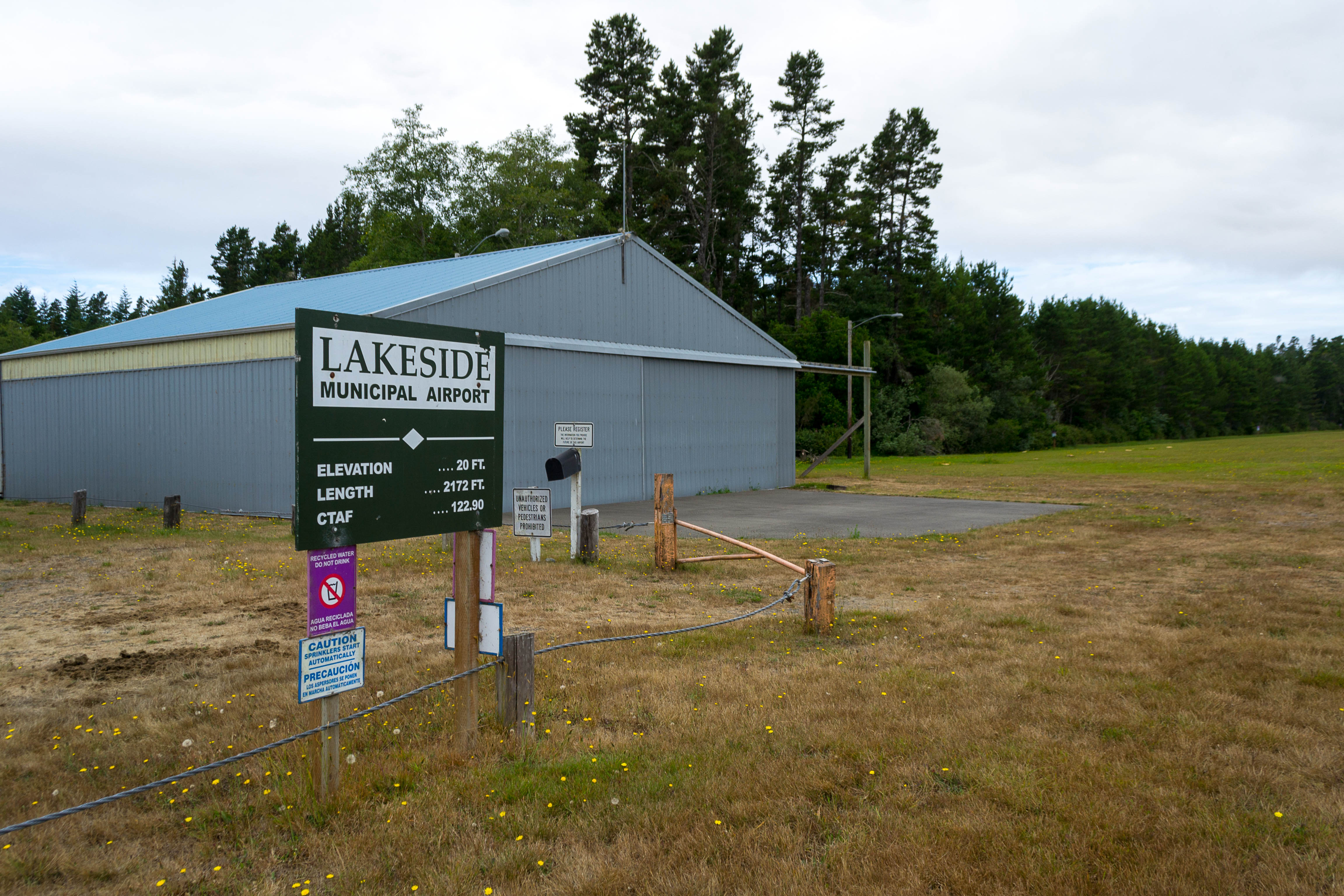 The airport in Lakeside, Oregon